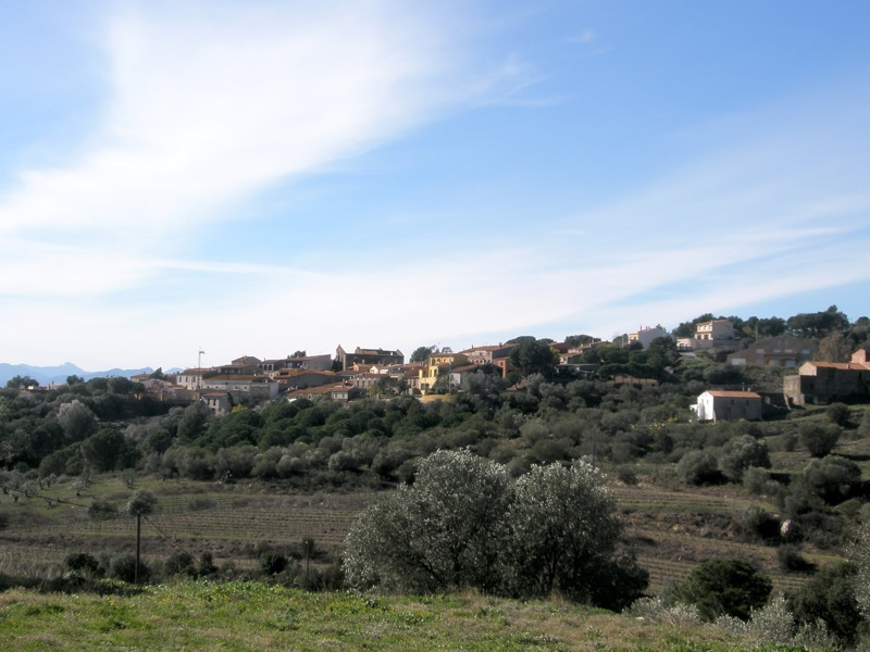 Overview of Vilamaniscle from Mas Polit, Eastern zone.